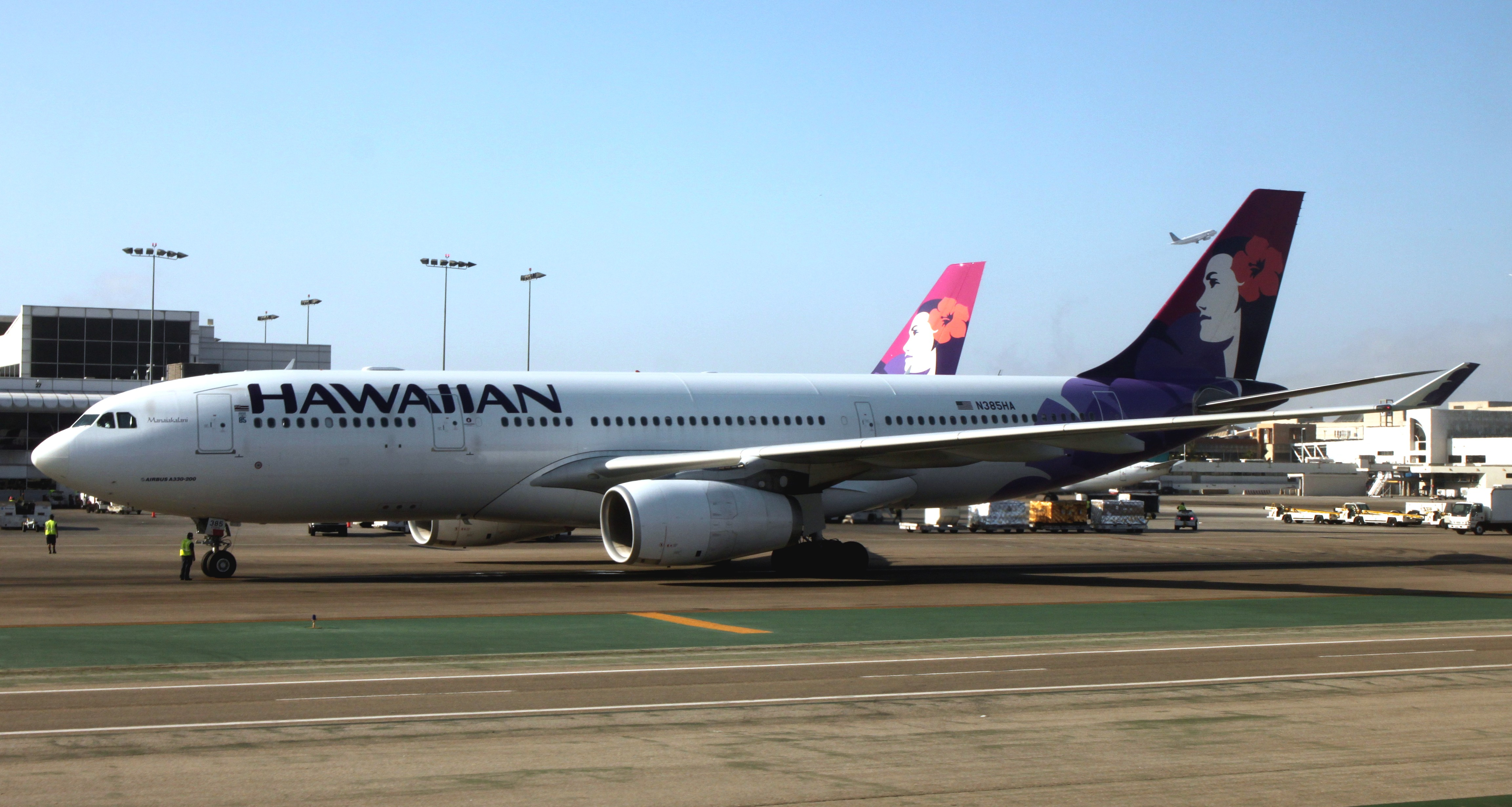 LAX International Airport